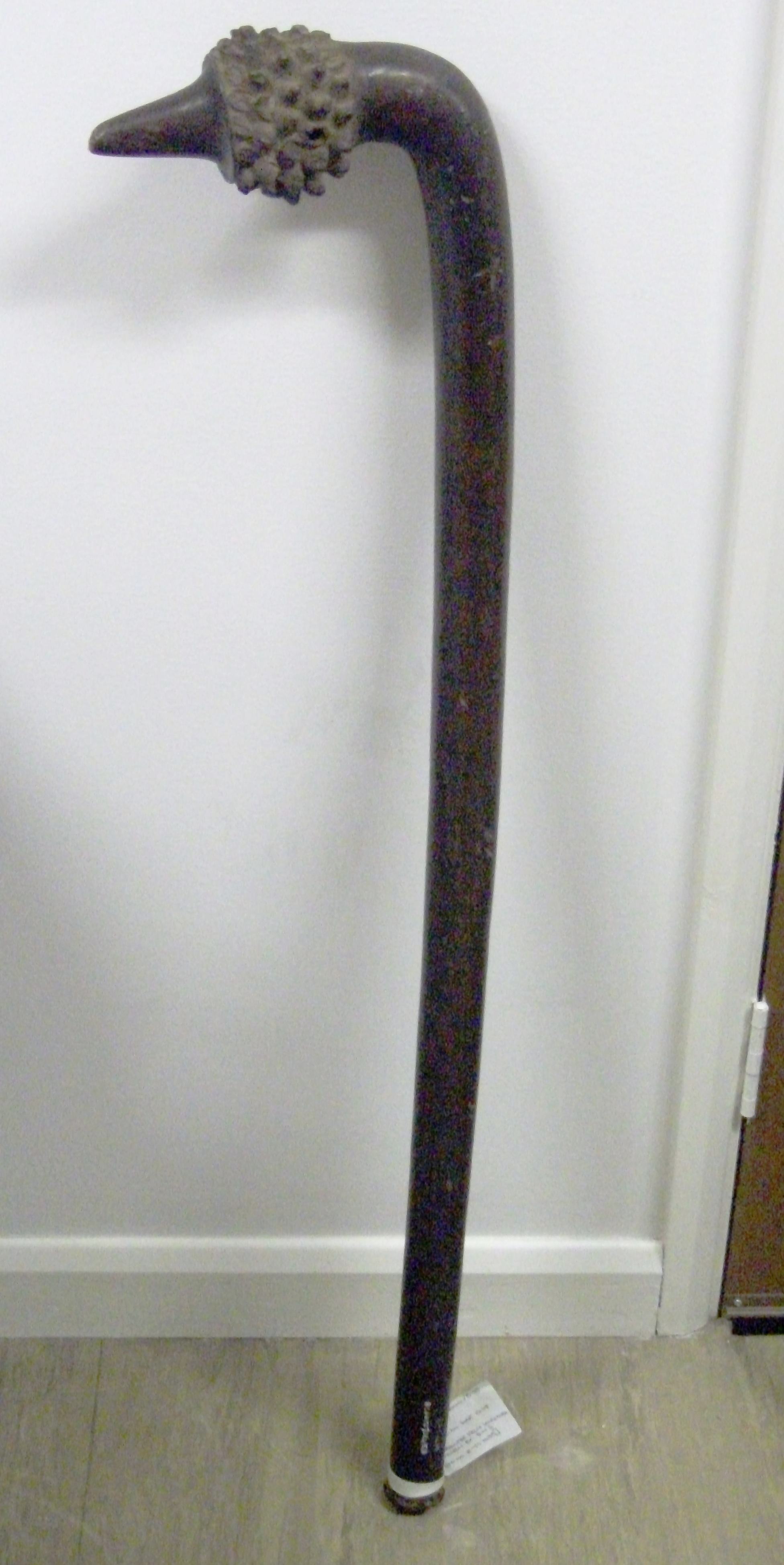 A Fijian war club (possibly ceremonial) in the stores of Bedford Museum. It seems that this is called a "Totokia" or "beaked battle hammer".